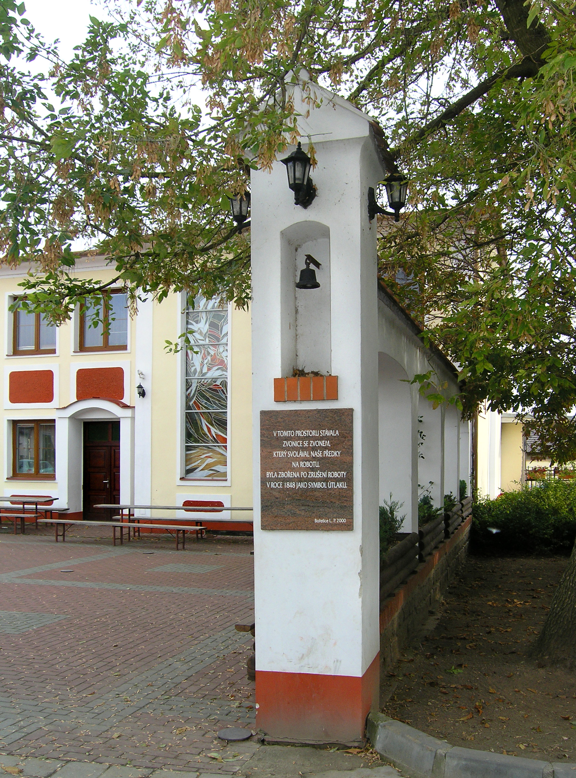 Old bell tower in Bořetice, Czech Republic